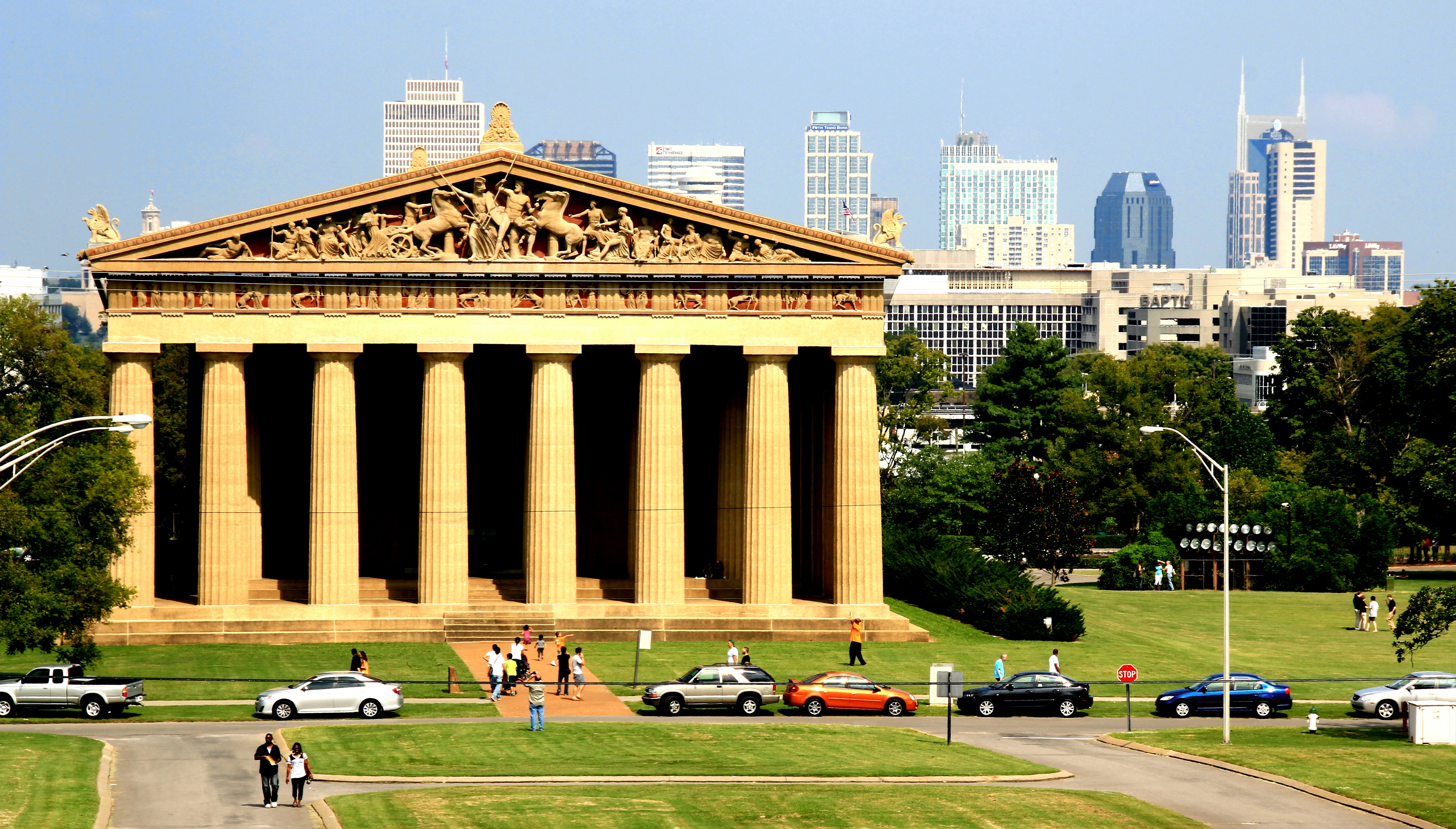 A masterpiece from history, recreated in a modern city!!